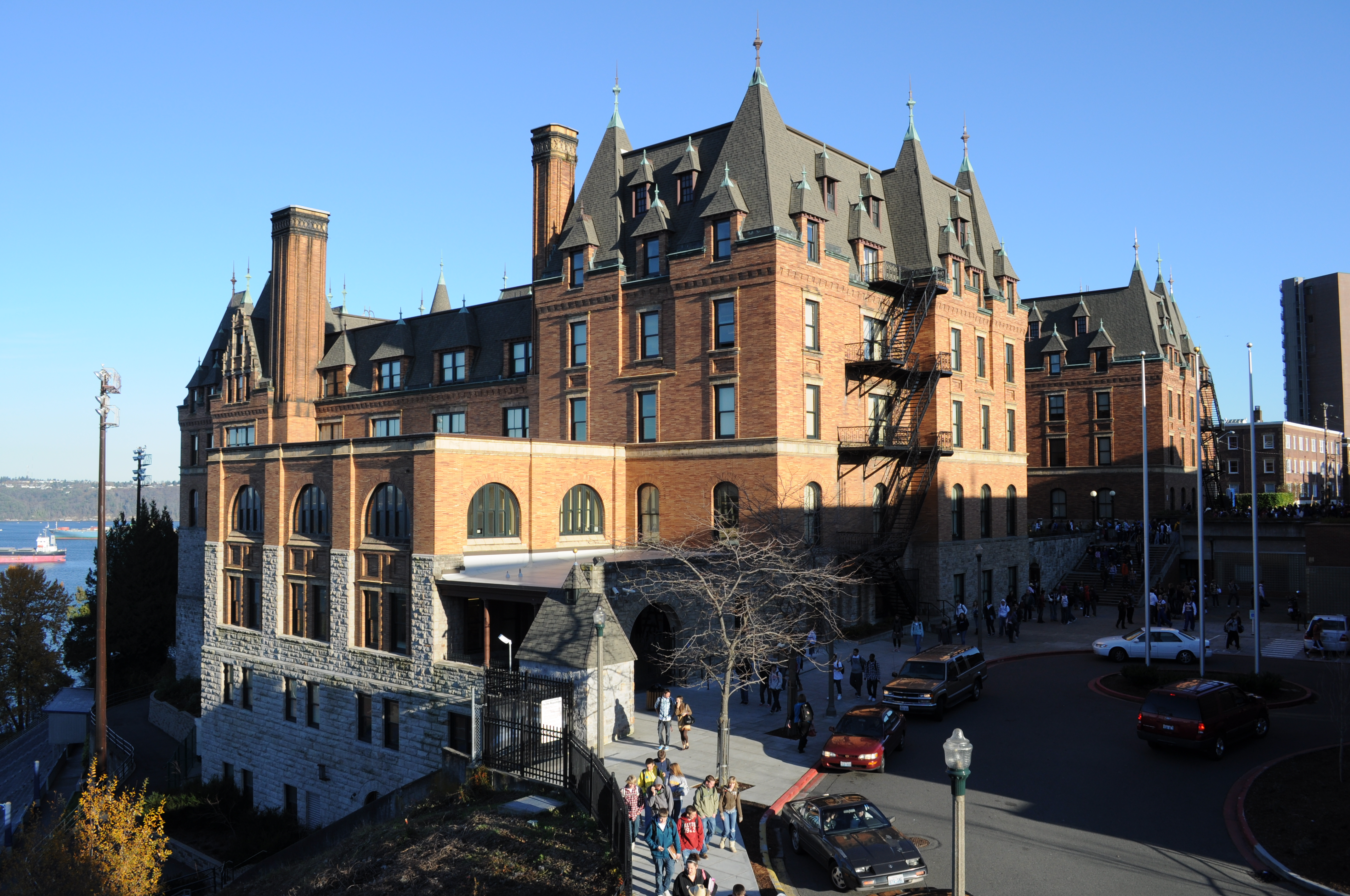 Stadium High School, Tacoma, Washington.